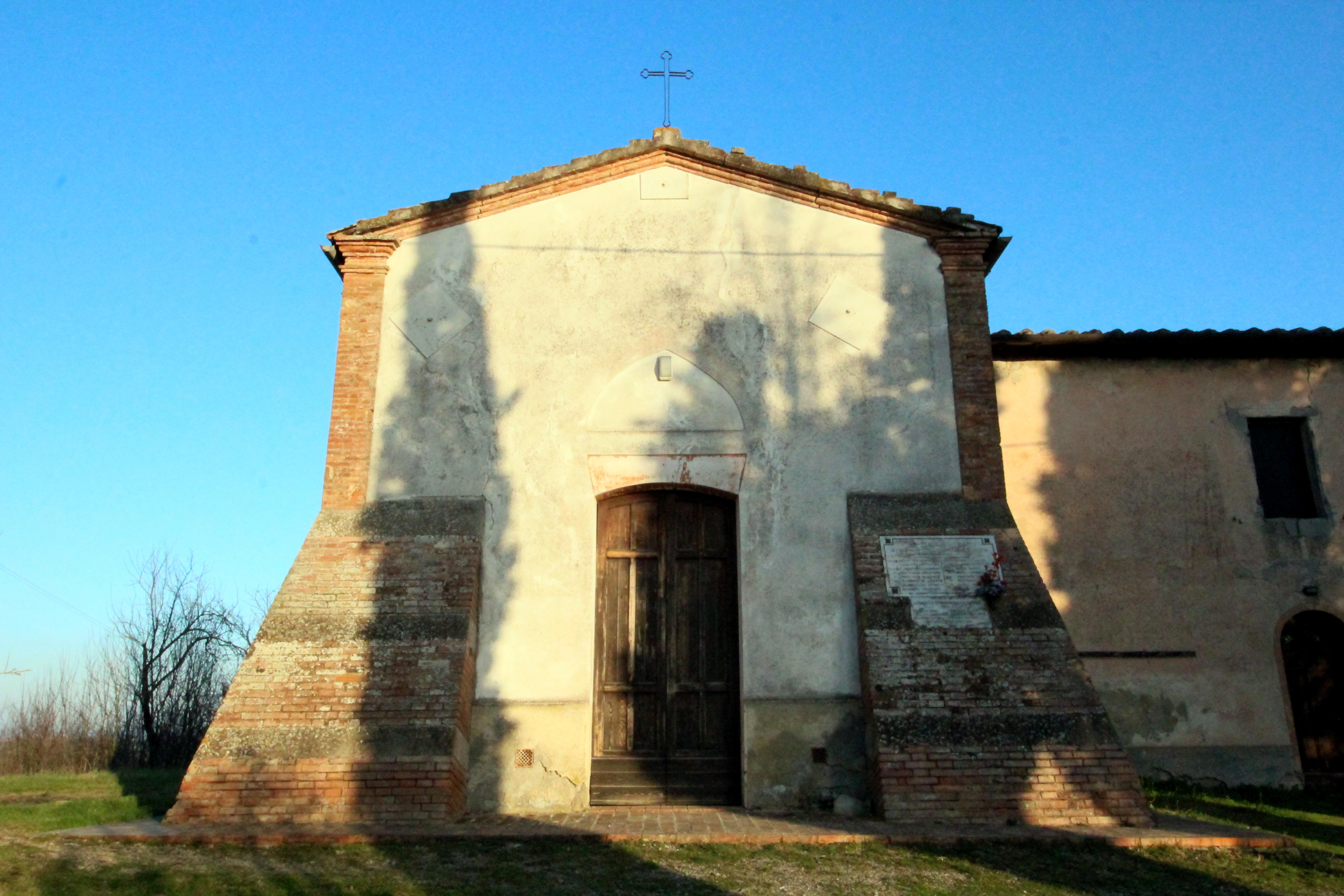 Church San Pietro Apostolo, Macciano, hamlet of Chiusi, Province of Siena, Tuscany, Italy